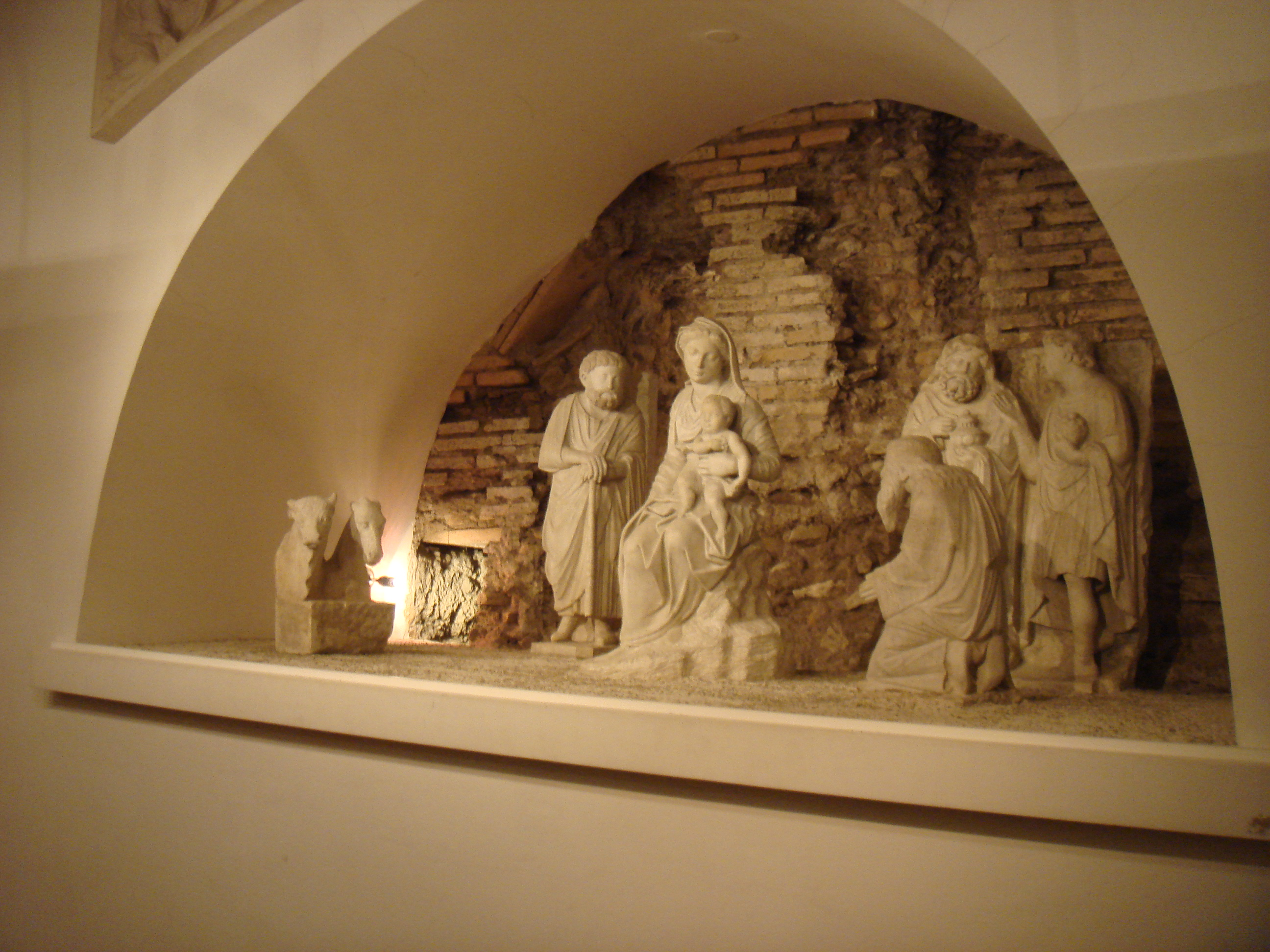 Manger by Arnolfo di Cambio, Rome, Santa Maria Maggiore, Italy.